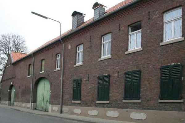 Cultural heritage monument No. 28 in Selfkant